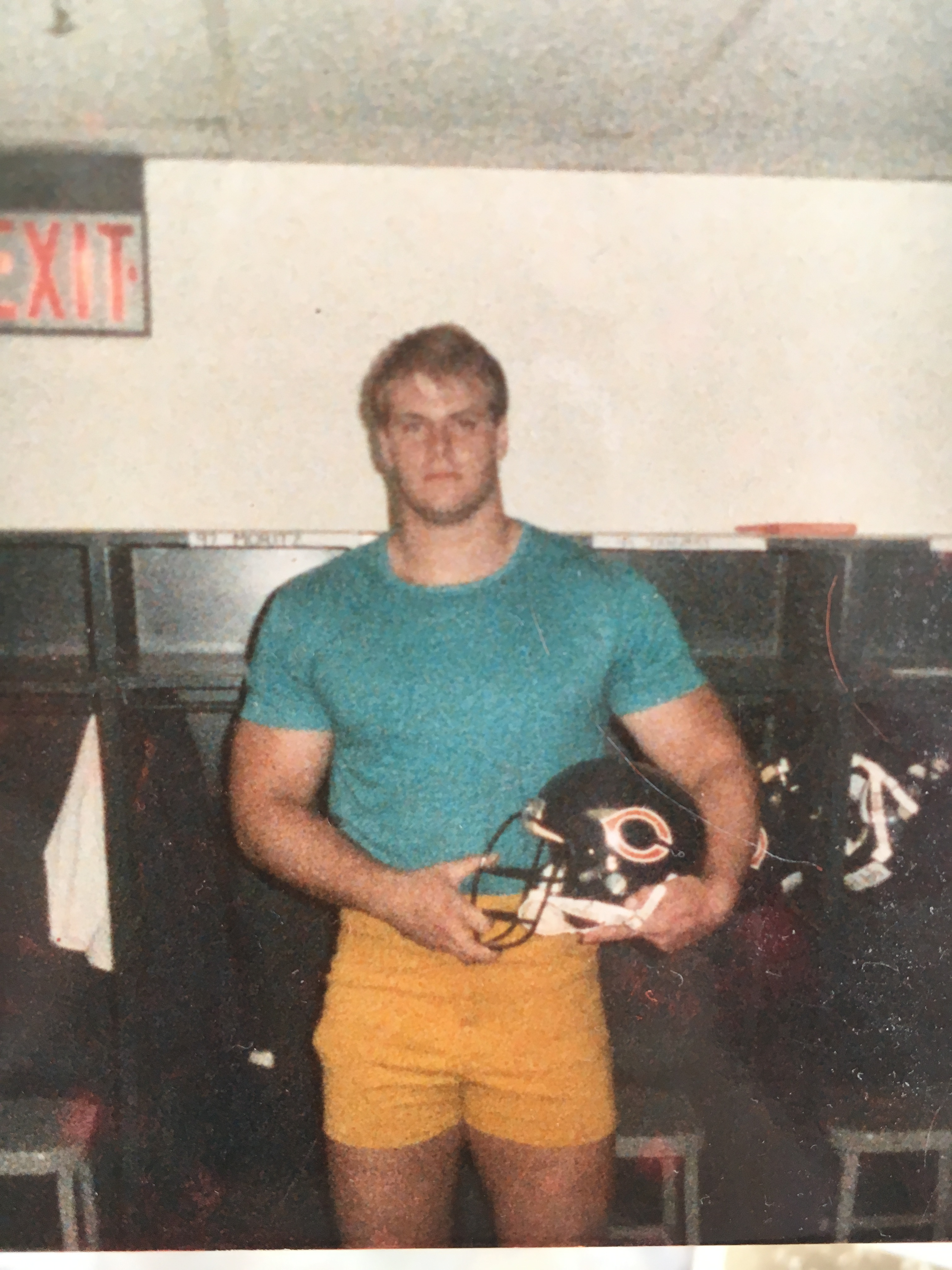 Stuart Rindy in the Chicago Bears locker room